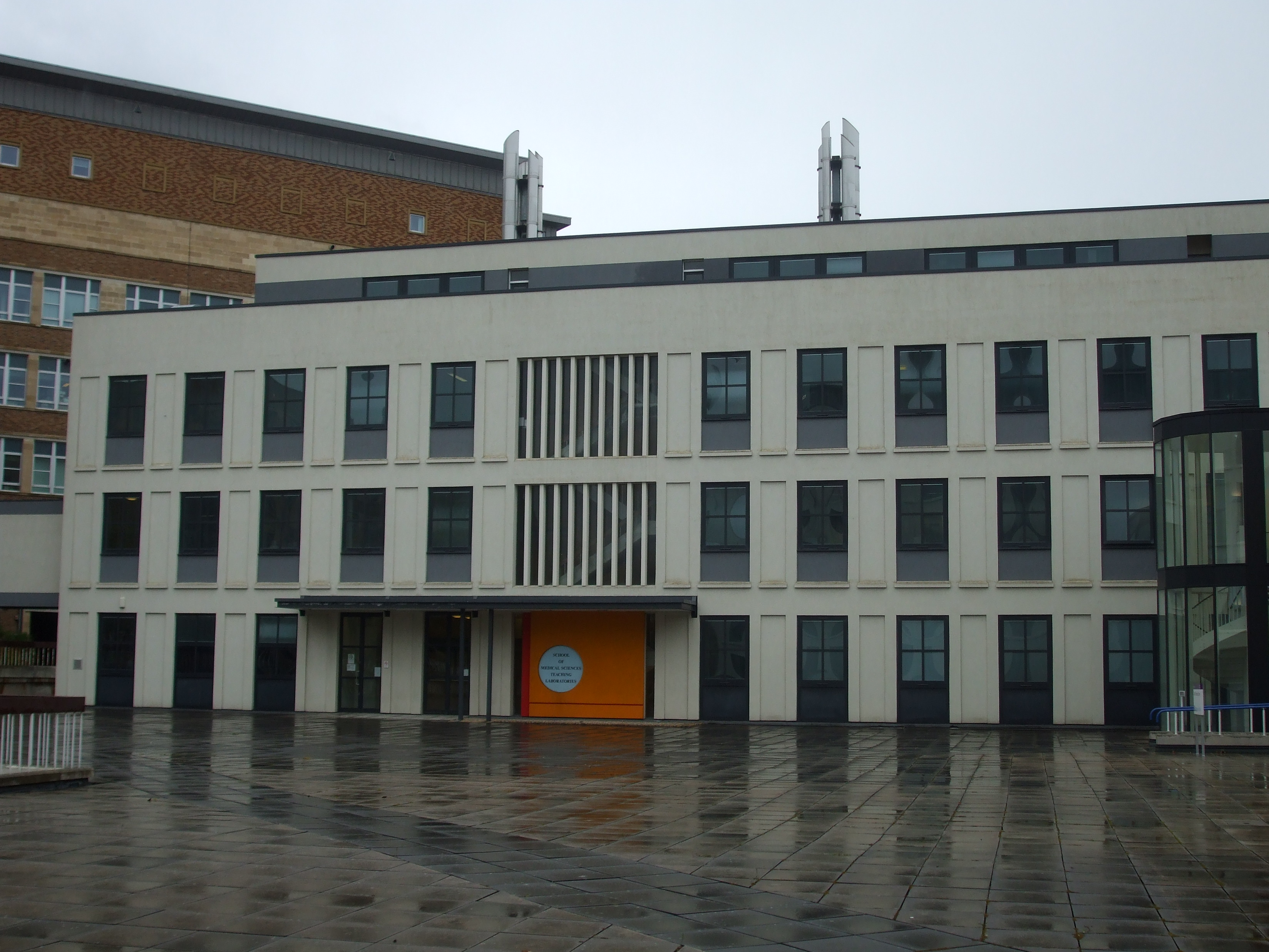 University of Bristol medical buildings